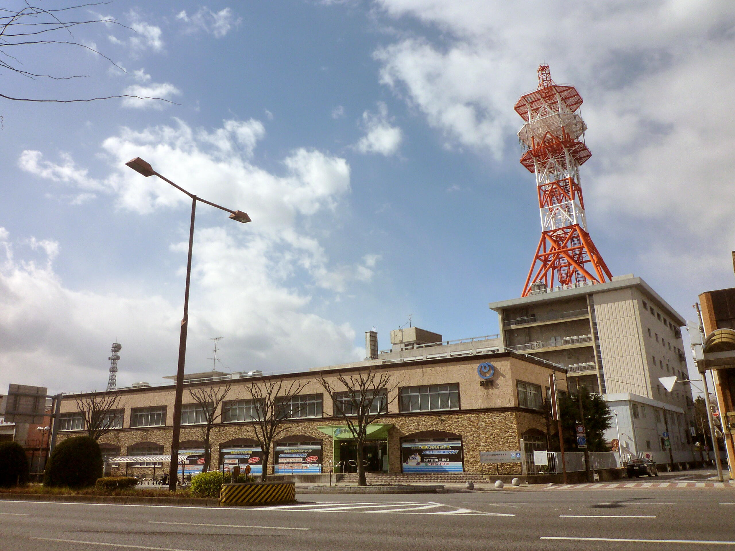 The "NTT Tsu-Marunouchi Building" in Marunouchi, Tsu City,Mie Prefecture,Japan.